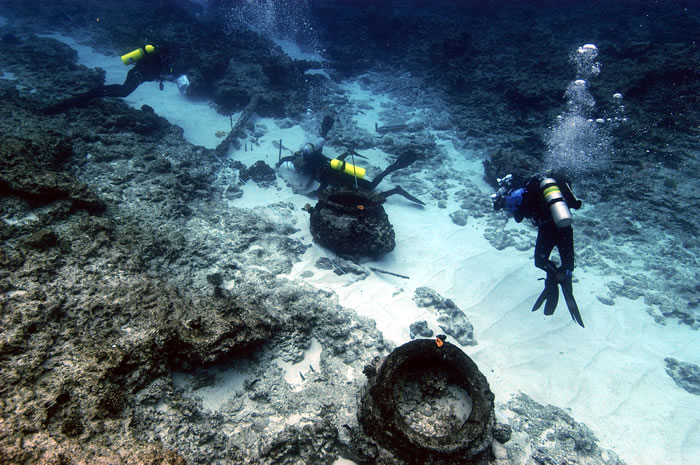 John Brooks films Tane Casserley, Kelly Gleason and Hans Van Tilburg documenting the Pearl shipwreck site.